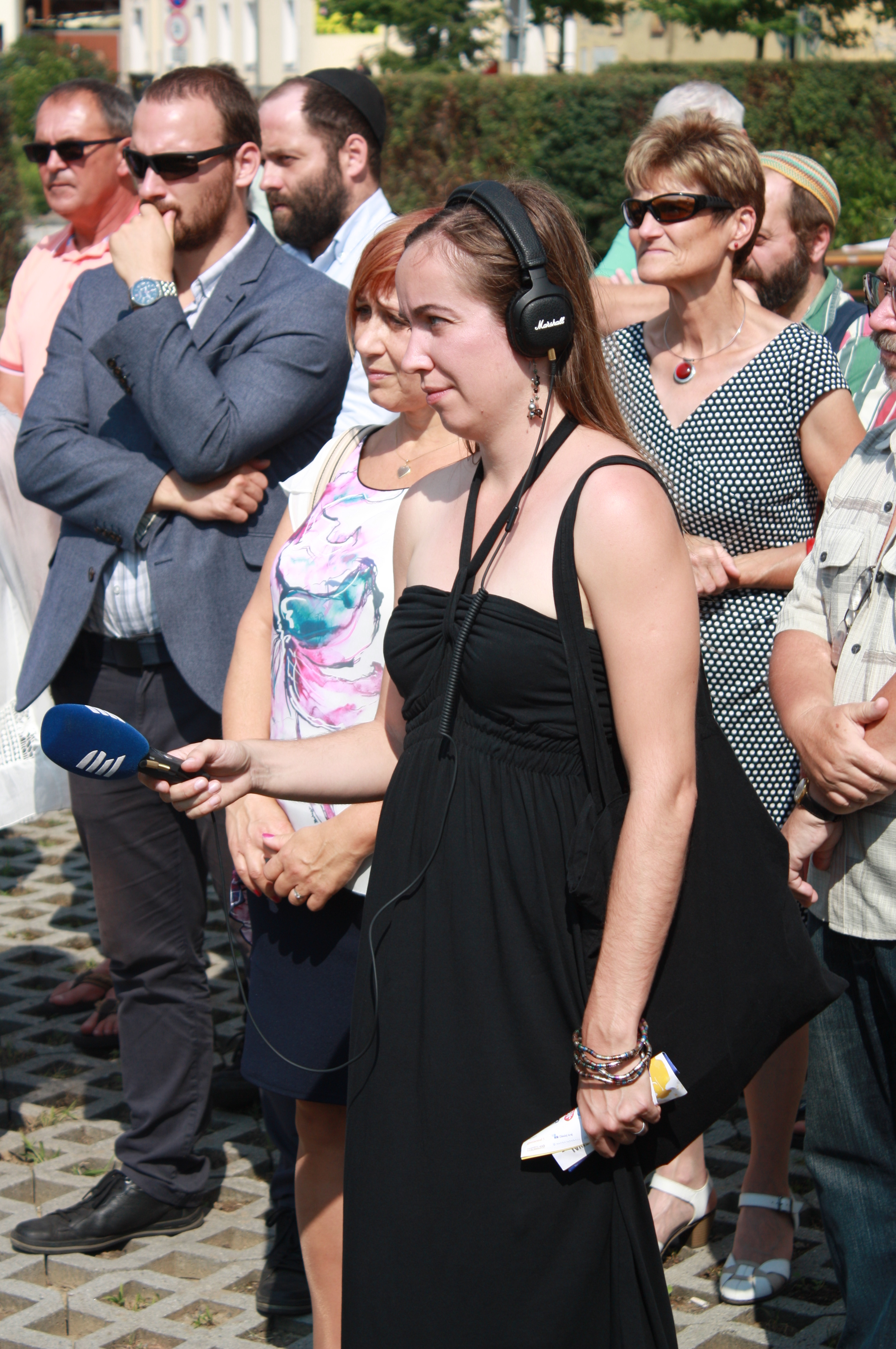 Reporter of Czech Radio on Festival of Jewish culture in Holešov, Kroměříž District, Zlín Region, Czech Republic